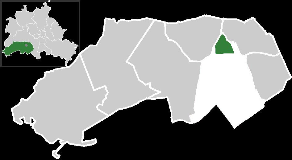 Location of Lichterfelde West within Borough of Zehlendorf in Berlin